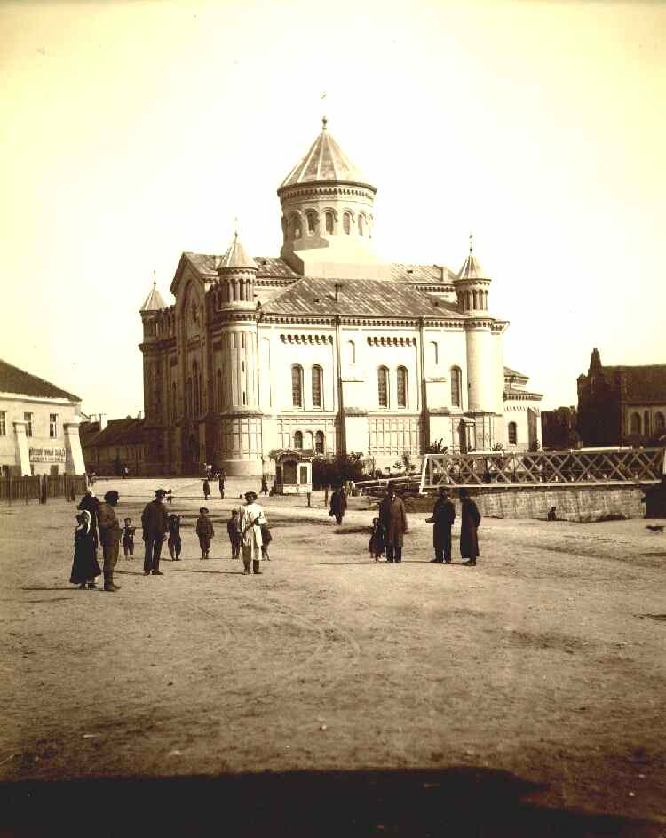 Church of the Blessed Mother of God. Vilnius